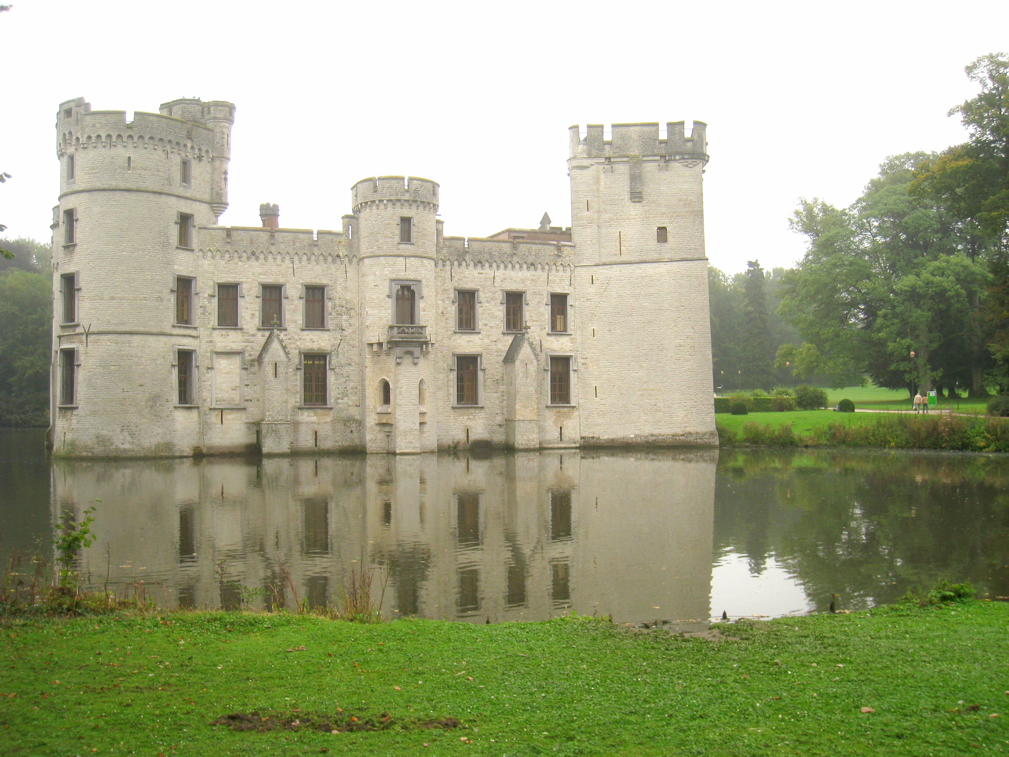 Bouchout Castle, in the National Botanic Garden of Belgium, Meise (just north of Brussels), Belgium.